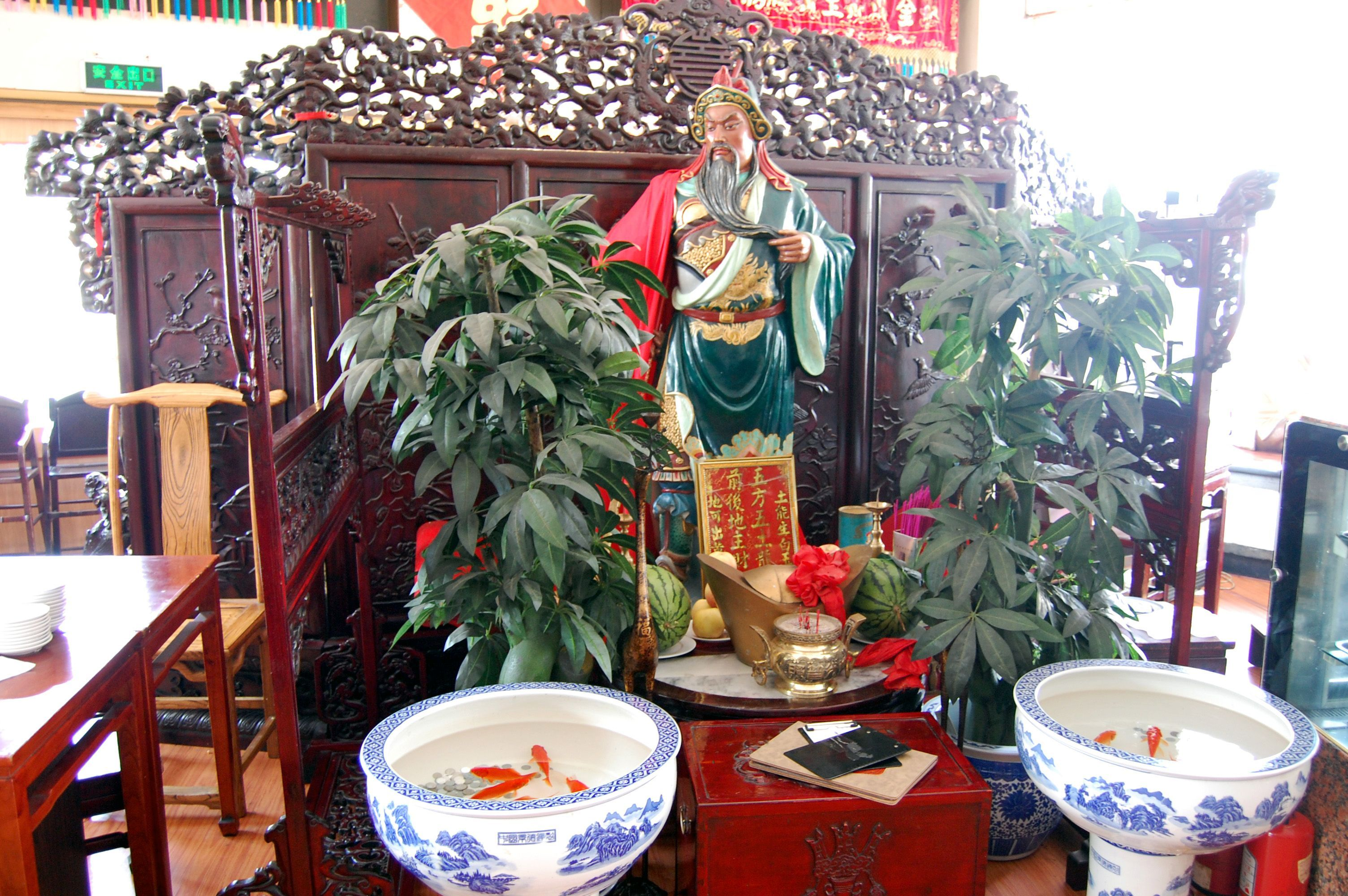 Altar to Guandi in a restaurant of Beijing, China. 老北京炸醤面大王: 関羽/Guan Yu/关羽 License on Flickr (2011-01-25): CC-BY-2.0 Flickr tags: geotagged, China, Beijing, 中国, 北京, 三国演義, Romance, Three